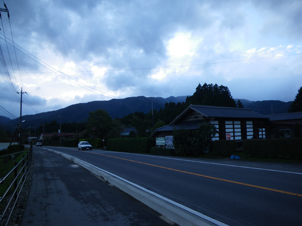 Tochigi prefectural road R30 on Nasushiobara. Nasushiobara, Tochigi, Japan.